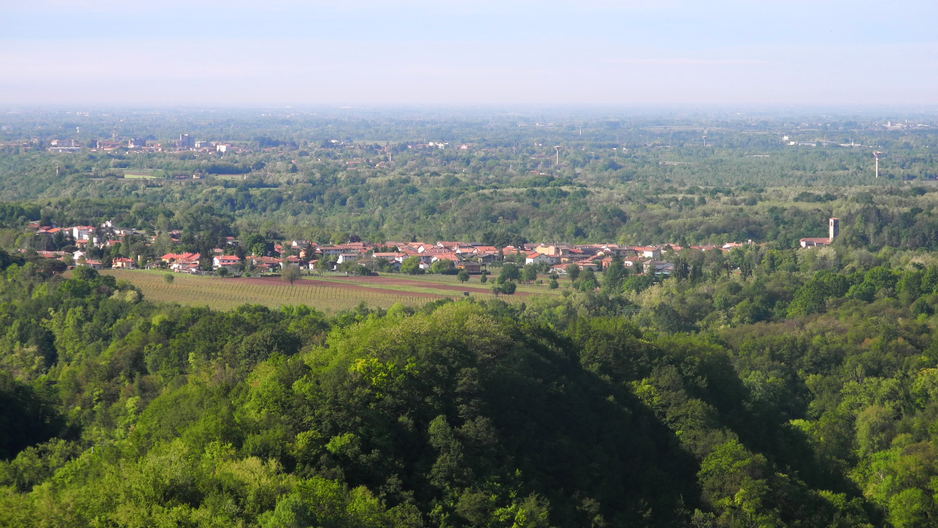 Valeriano - municipality of Pinzano al Tagliamento (PN)